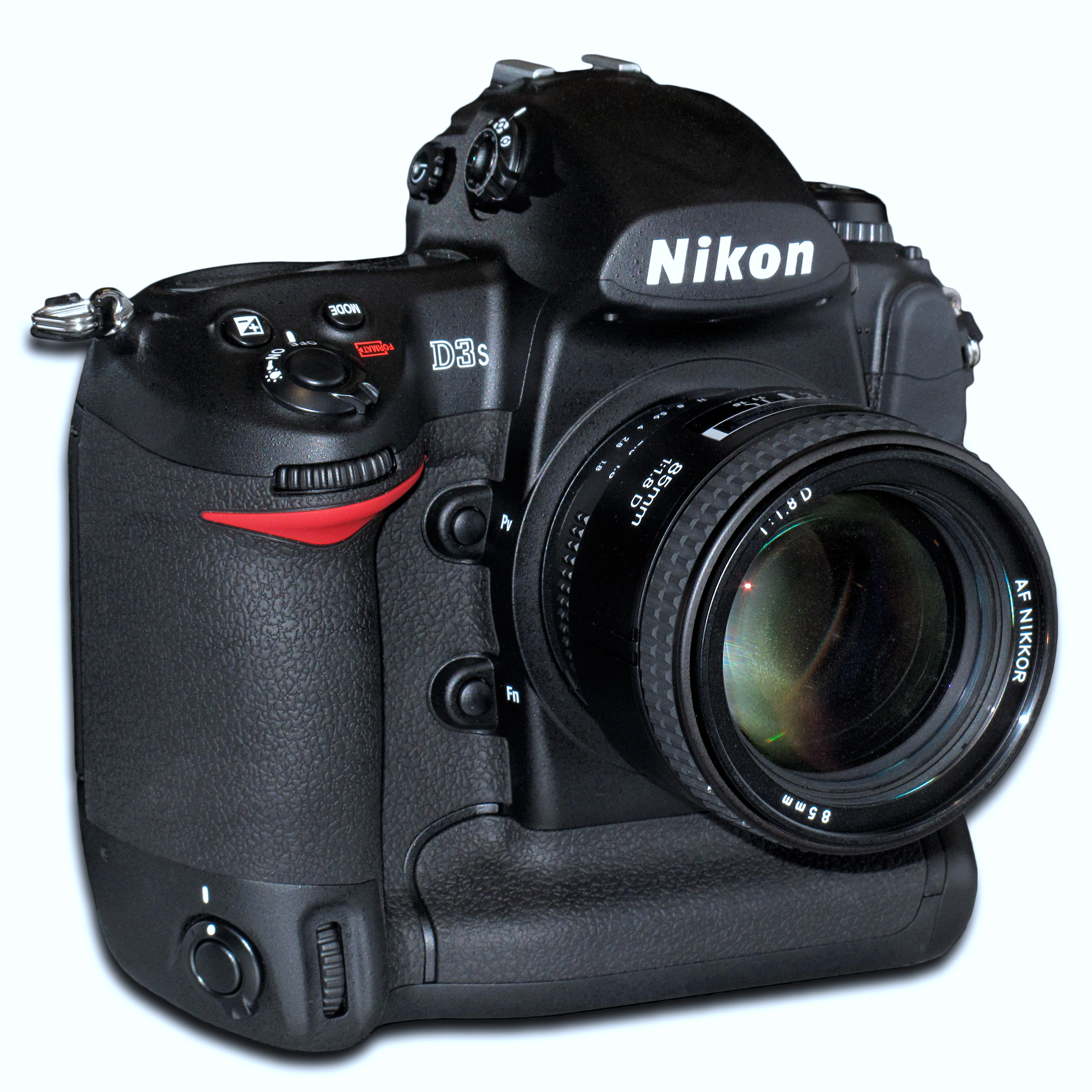 Nikon D3s digital SLR camera with AF Nikkor 85 mm f/1.8D lens